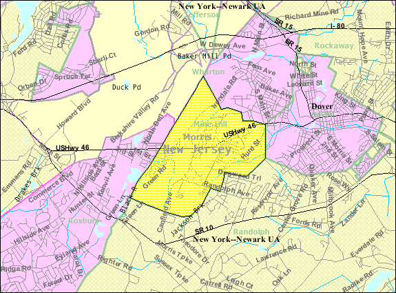 Census Bureau map of Mine Hill Township